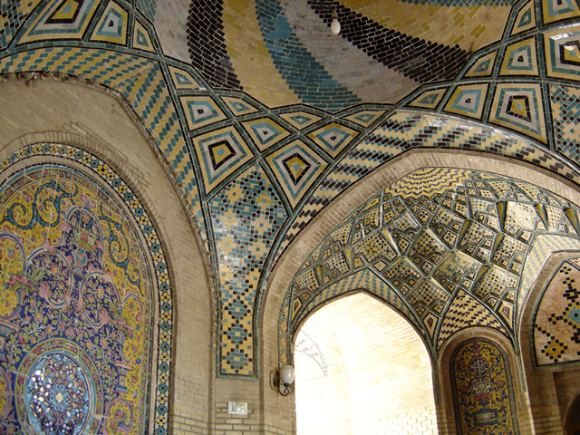 I took this photo in the summer of 2005.